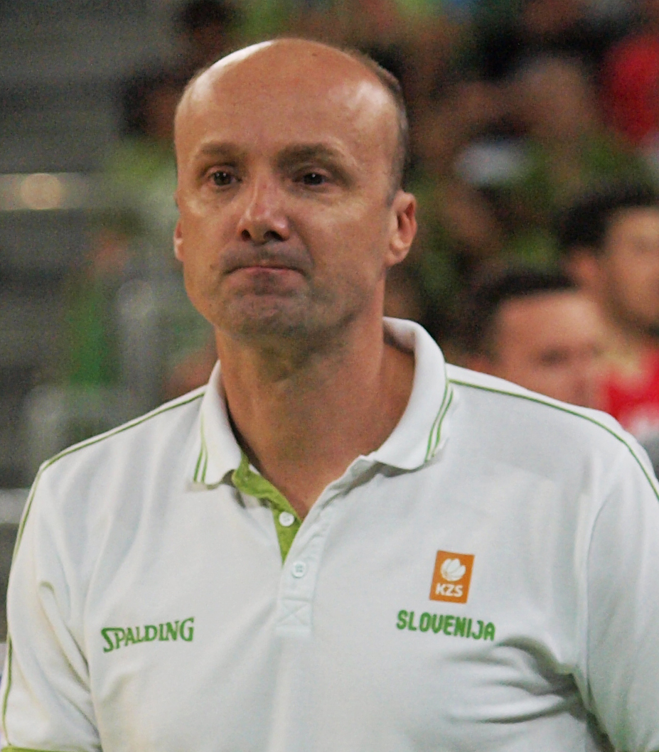 Jure Zdovc coaching Slovenia vs Serbia friendly game. 27. august 2015 in Ljubljana.